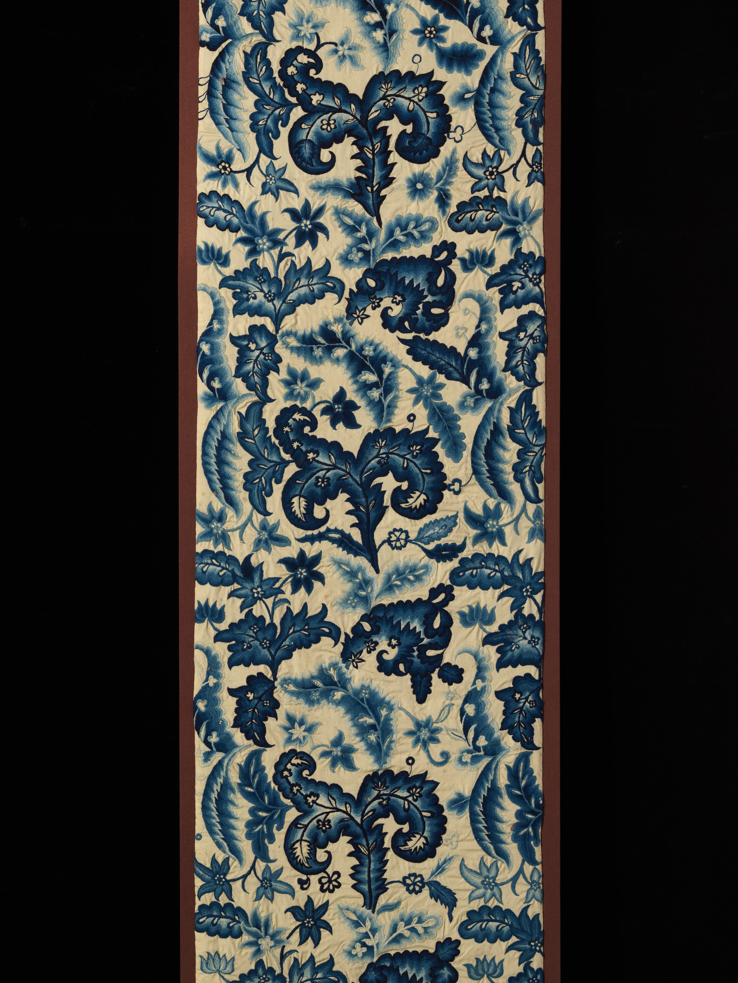 One of a pair of bed curtain panels, wool embroidery on plain weave wool fabric. Metropolitan Museum of Art, 2017.726a, b